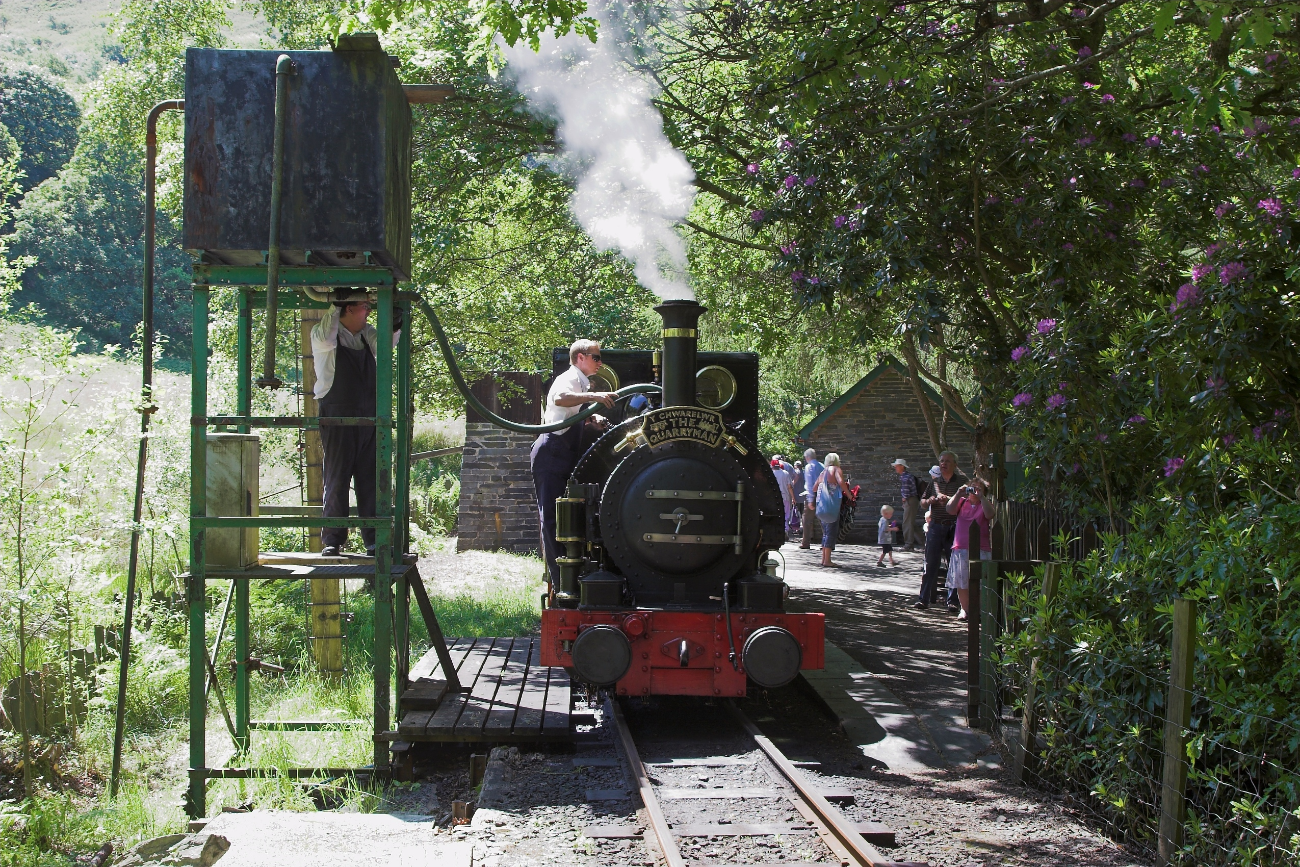 Talyllyn Railway No. 1 Talyllyn taking water at Dolgoch station.